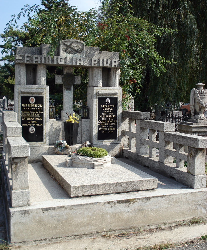 Tomb of the Pivas, Mindszent Cemetery, Miskolc, Hungary